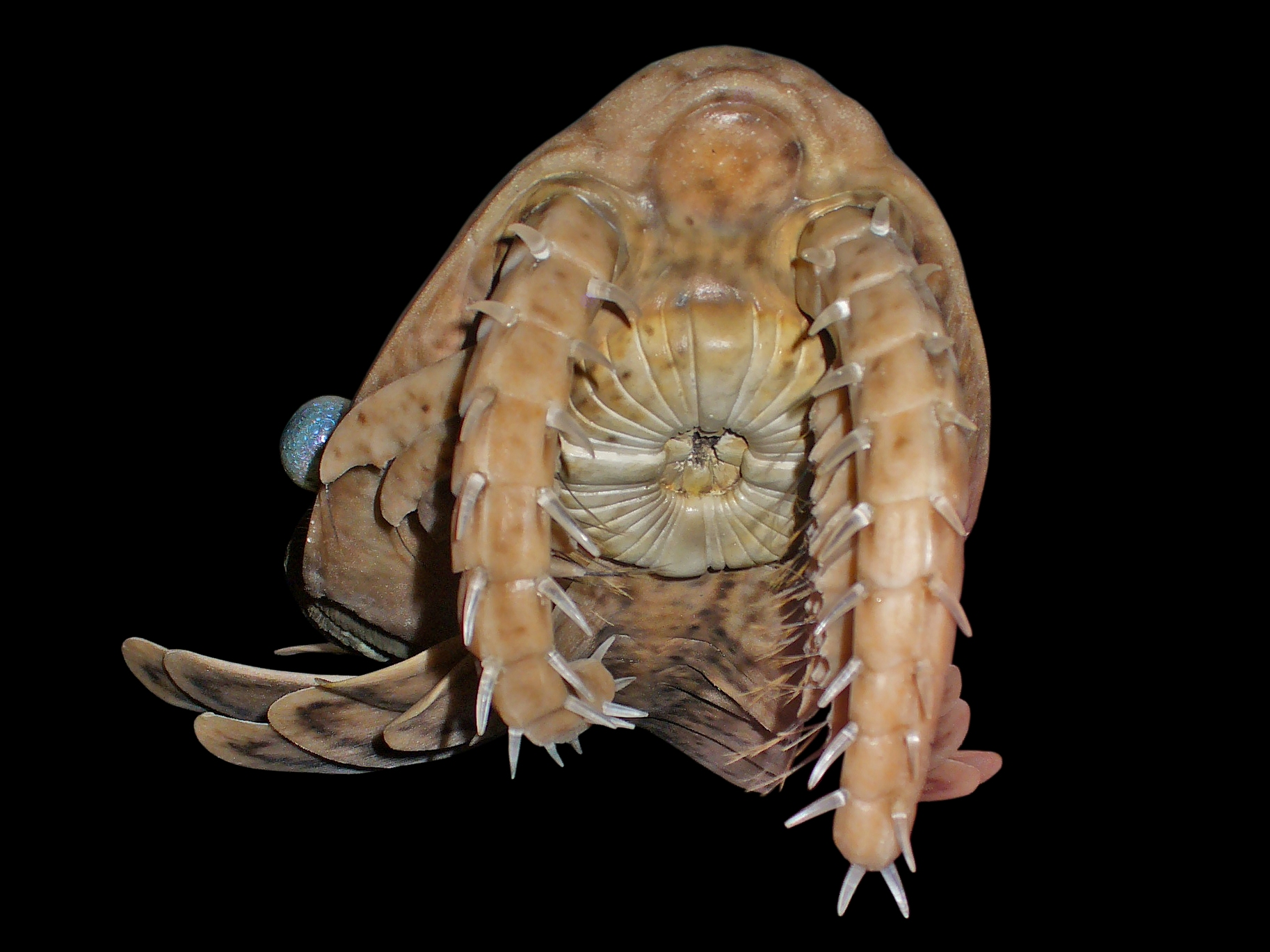 Laggania cambria, Anomalocarididae, Mouth; Model in life size (about 60 cm) based on fossils from Burgess Shale (middle Cambrian), Canada; Staatliches Museum für Naturkunde Karlsruhe, Germany.